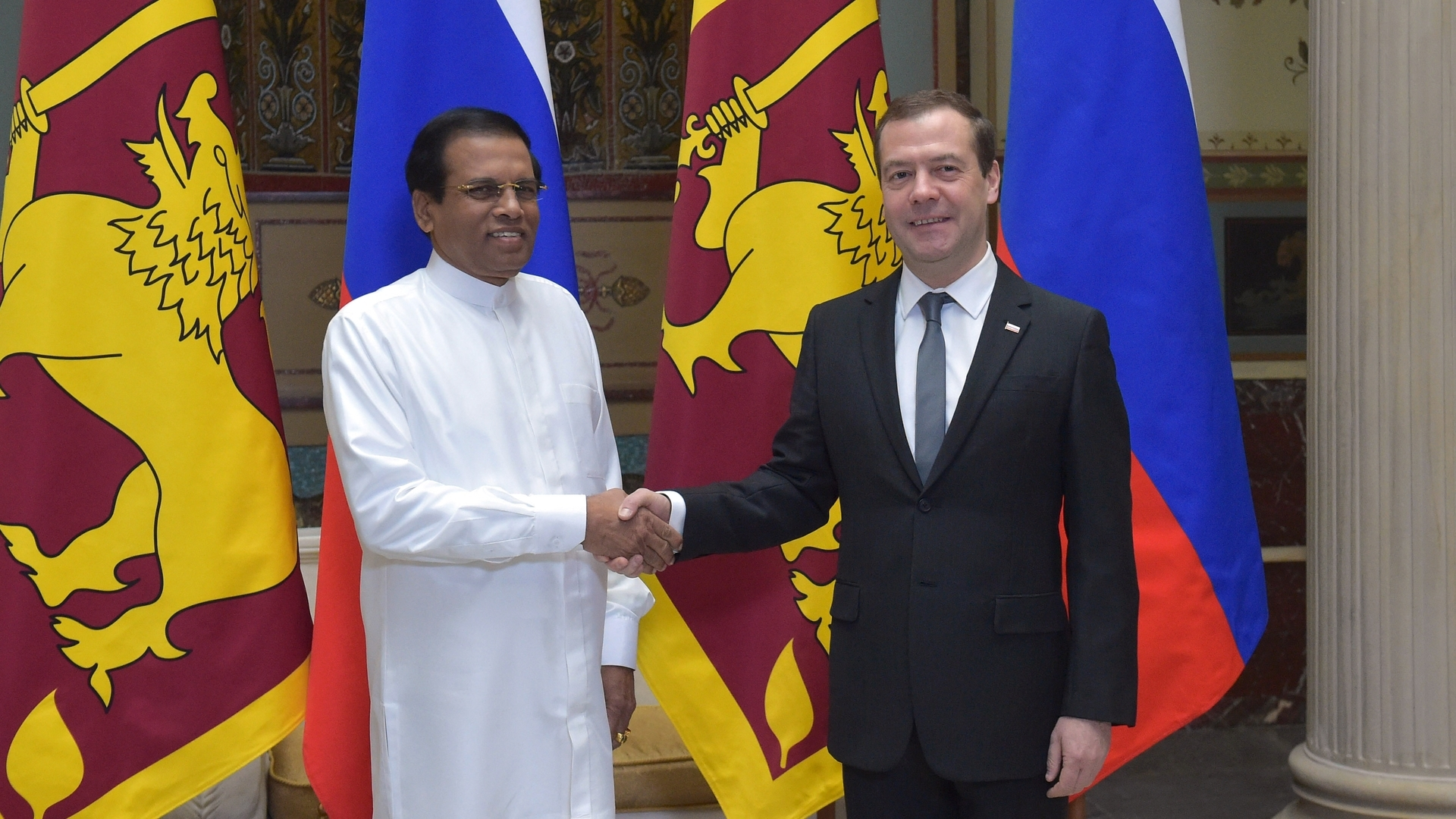 Sri Lankan President Maithripala Sirisena meets with Russian Prime Minister Dmitry Medvedev during the former's state visit to Russia in March 2017